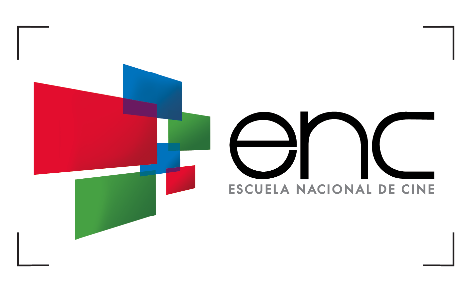 Logo de la Escuela Nacional de Cine ubicada en Caracas